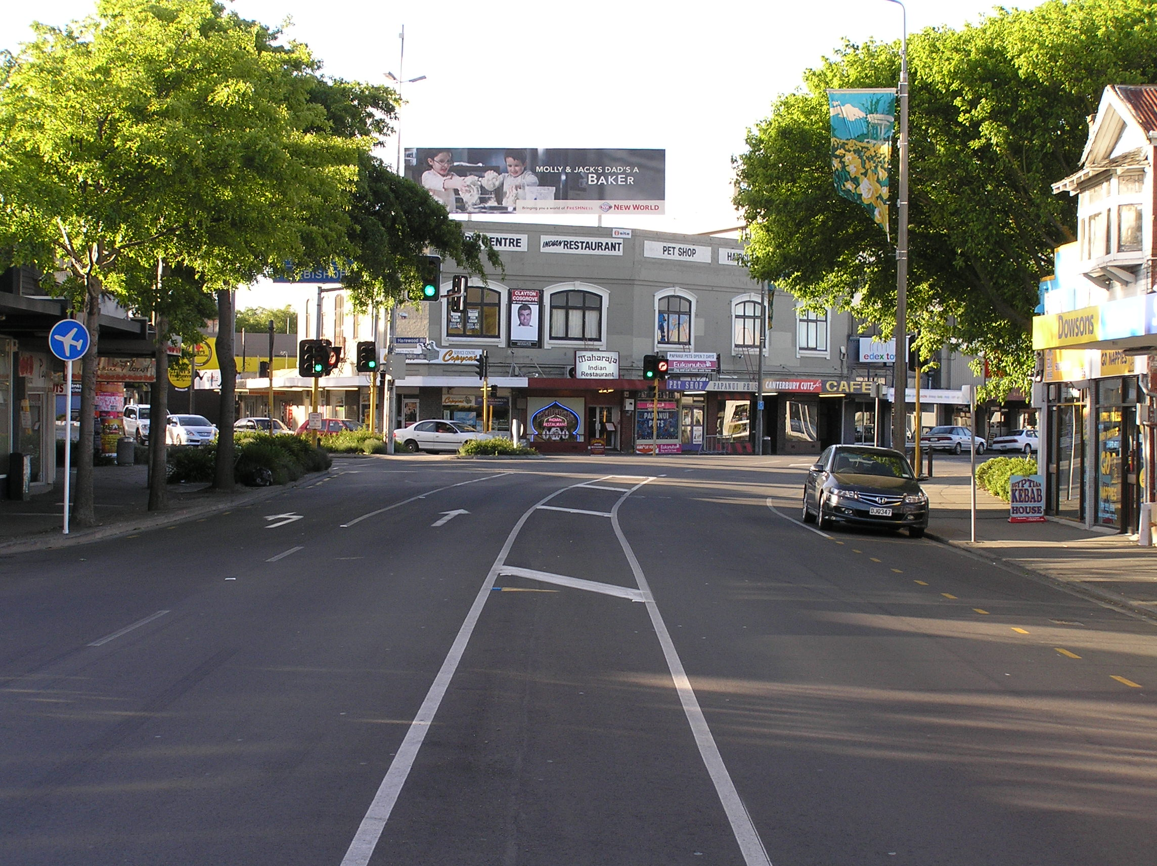 Papanui Junction with the century old Papanui Building centred.